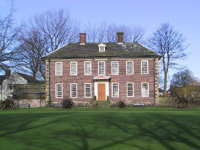 Foxdenton Hall in Chadderton, Greater Manchester, England. This shot shows the Hall from the Public Gardens